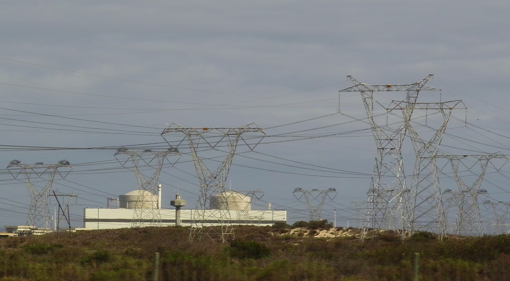 Koeberg Power Station seen from main road behind transmission pylons